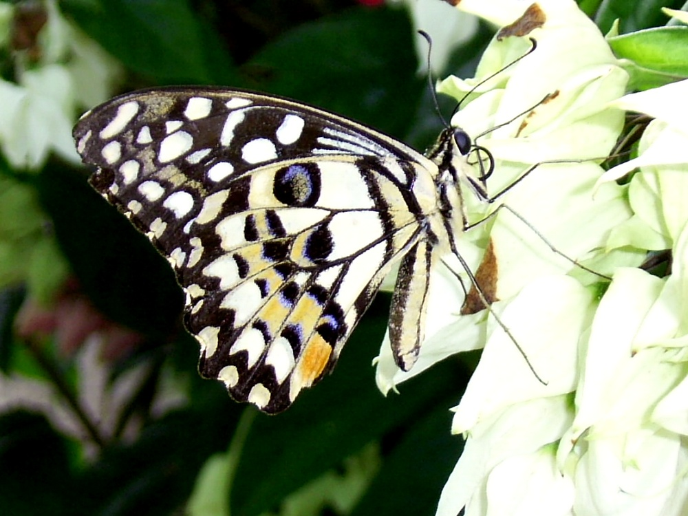 Papilio demoleus on Clerodendrum thomsoniae flowers; East Kalimantan, Indonesia